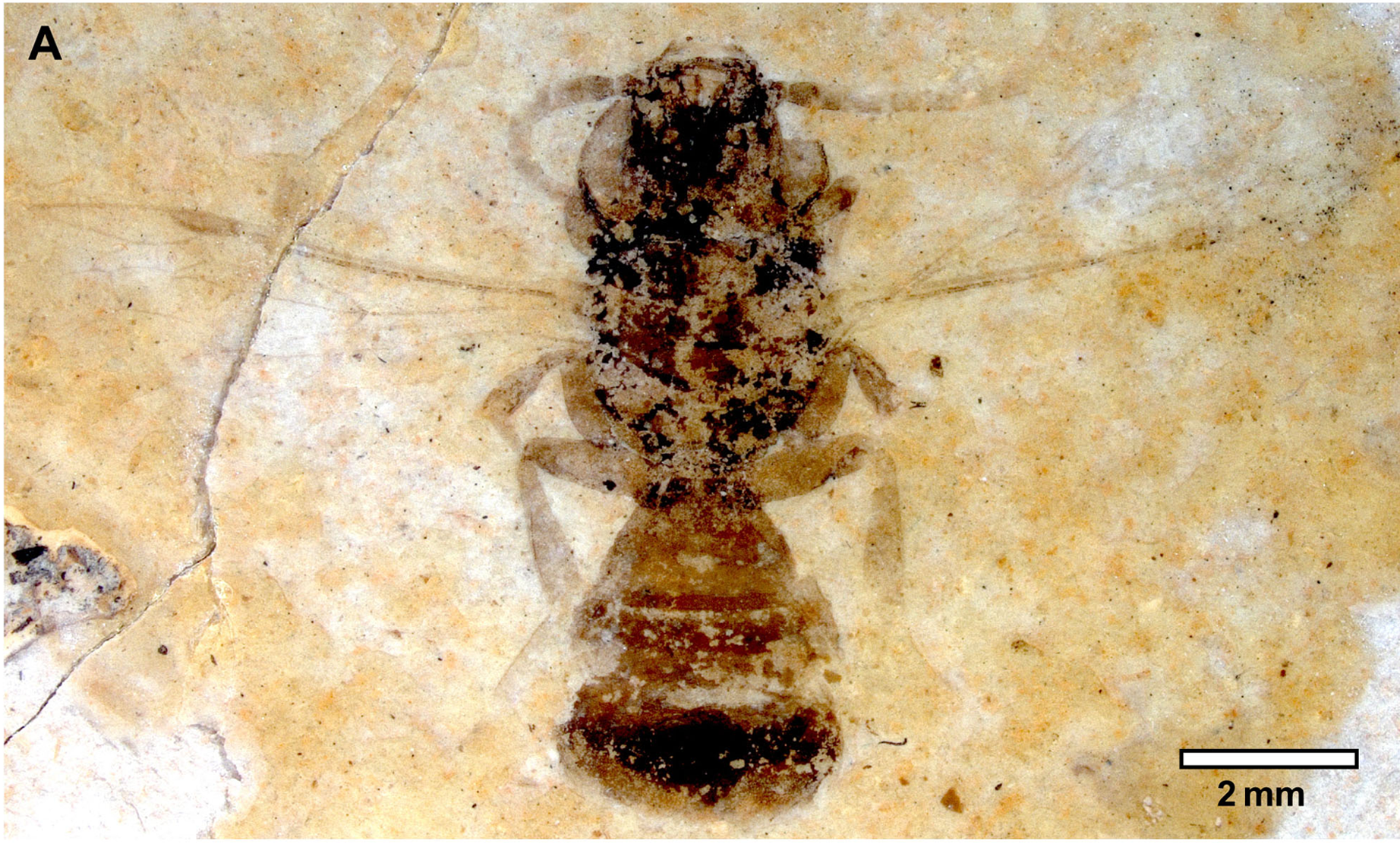 Figure 6. Male of Andrena antoinei sp. nov. A. General habitus.